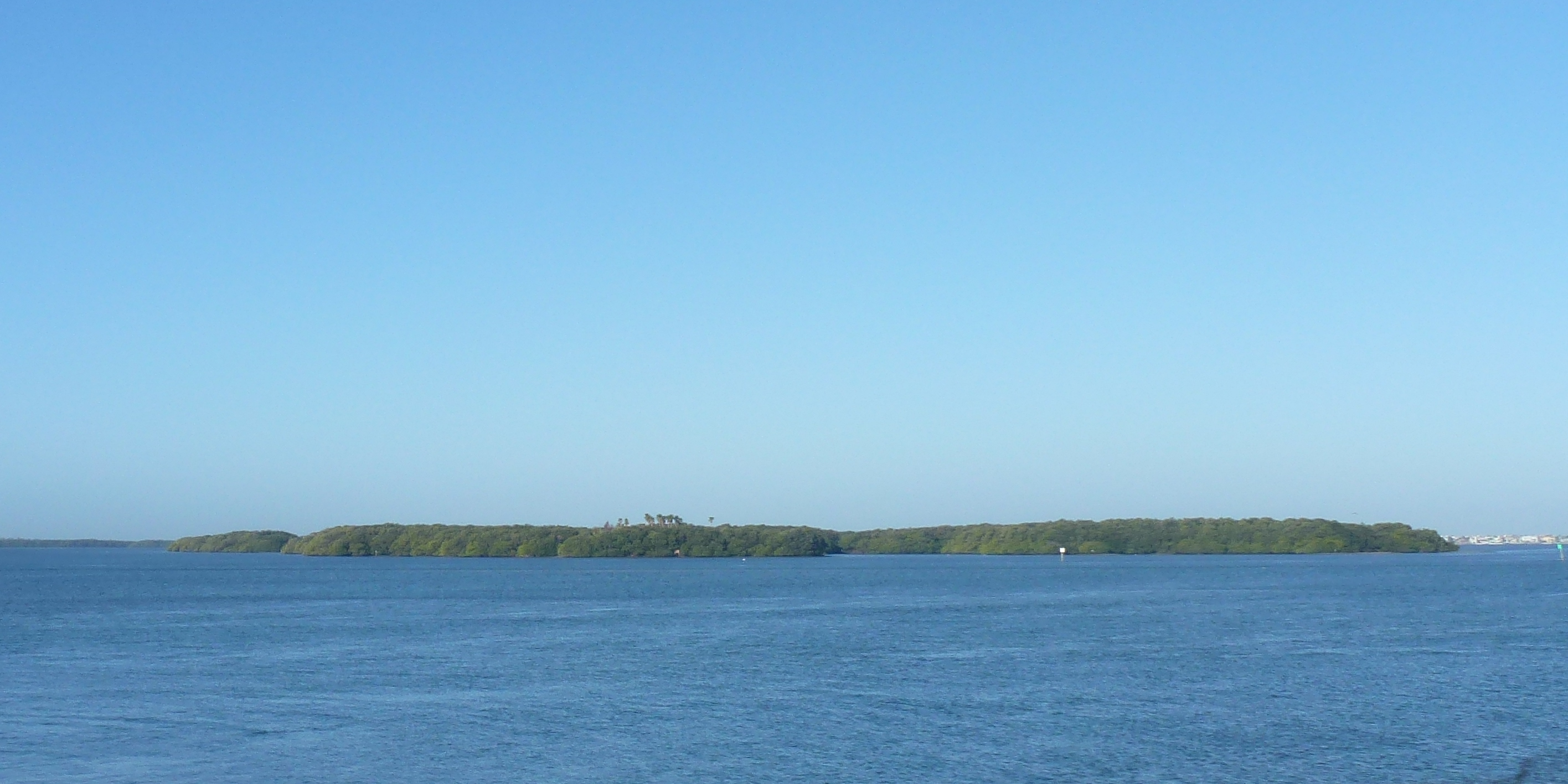 Pinellas National Wildlife Refuge, St. Petersburg, Pinellas County, Florida, USA.